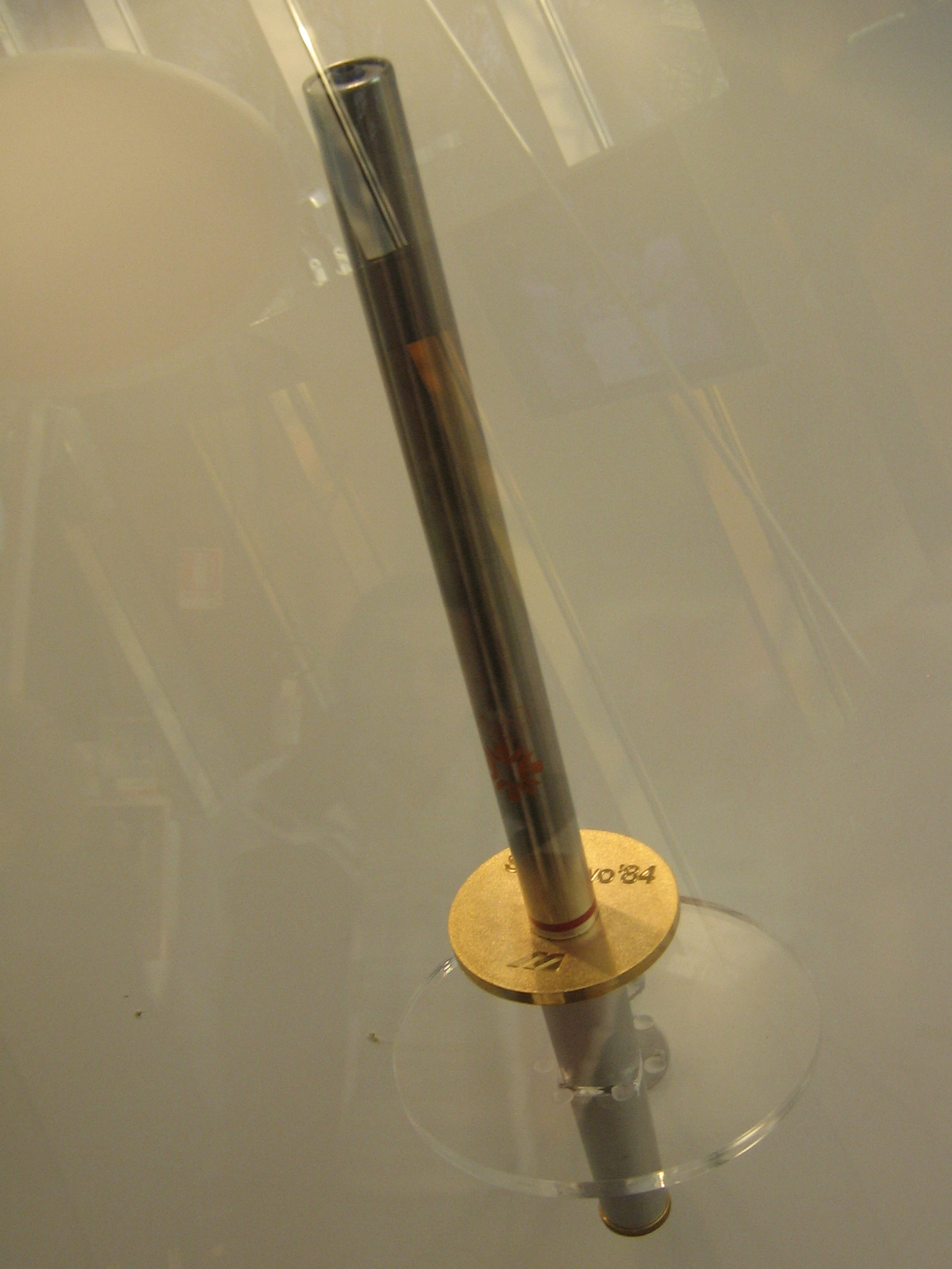 Sarajevo 1984 olympic torch, Olympic museum Lausanne, temporary exhibition in Turin (Atrium Torino)